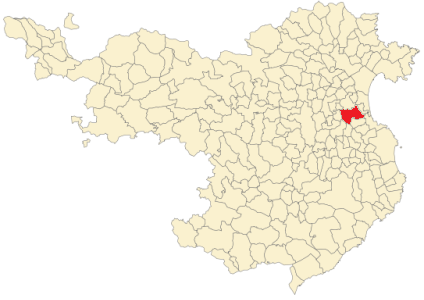 Ventalló